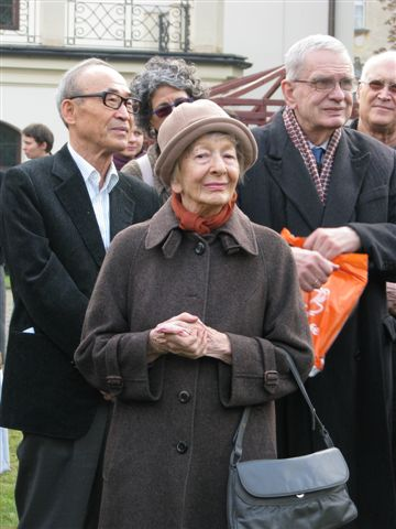 Wisława Szymborska (b. July 2, 1923 in Bnin, Poland), Polish poet and Nobel Prize winner, and Ko Un (b. 1933) - Korean poet and Tomas Venclova (b. 1937) - Lithuanian poet and essayist